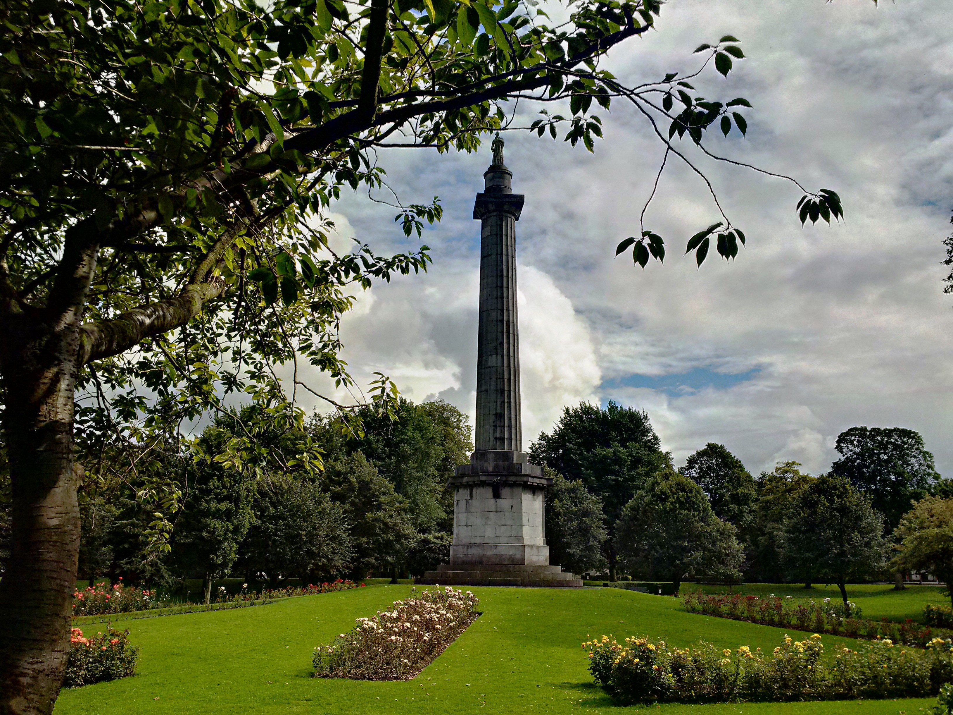 Rice Memorial